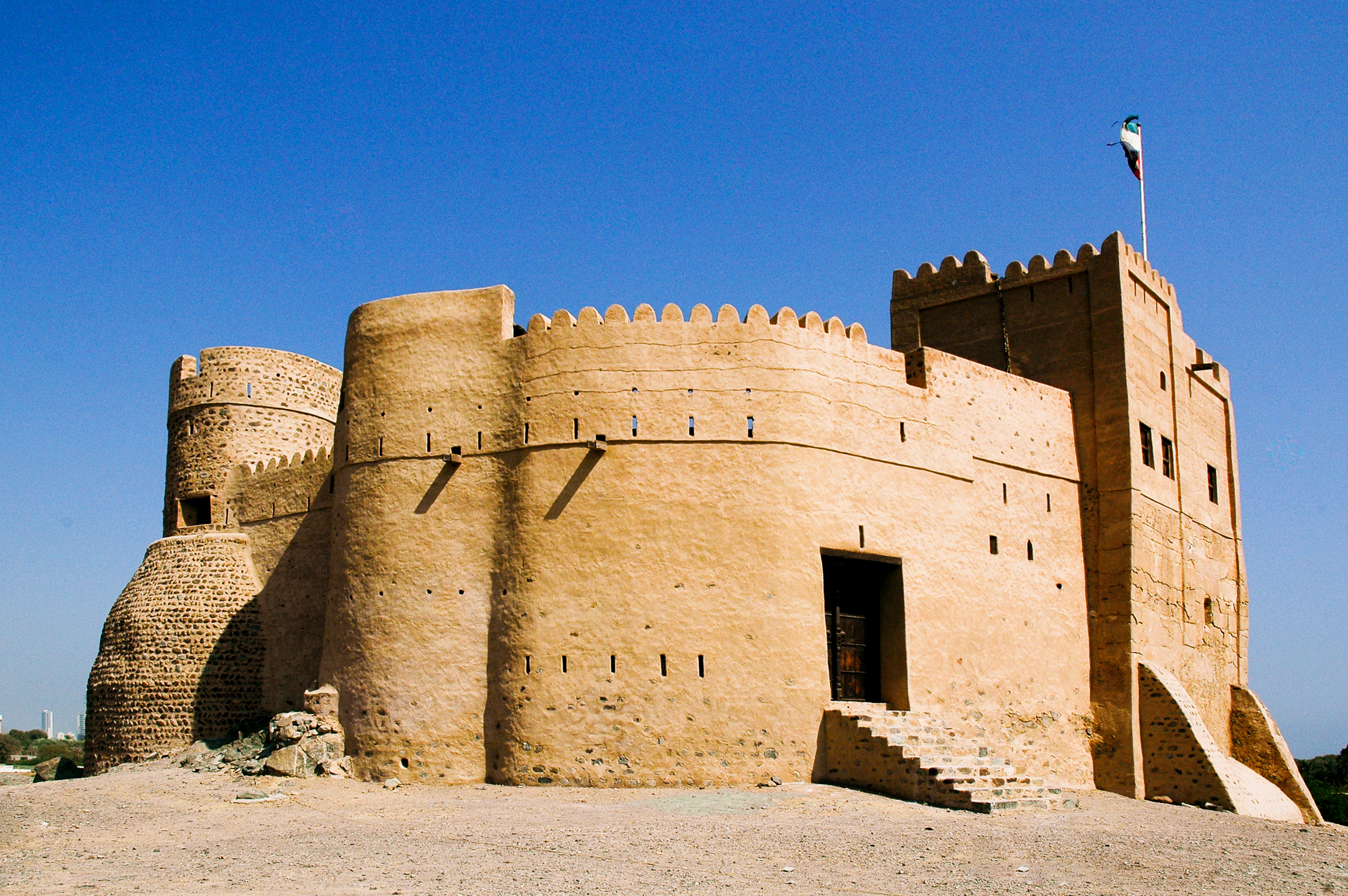 Fujairah Fort (not Al Bithnah Fort) side view, Fujairah City, Fujaairah, UAE.